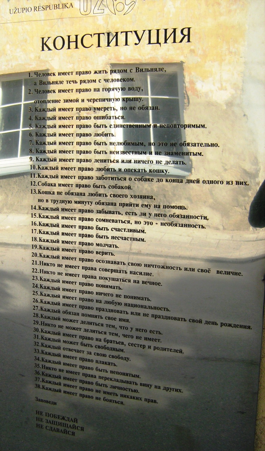 The Užupis Constitution in Russian.